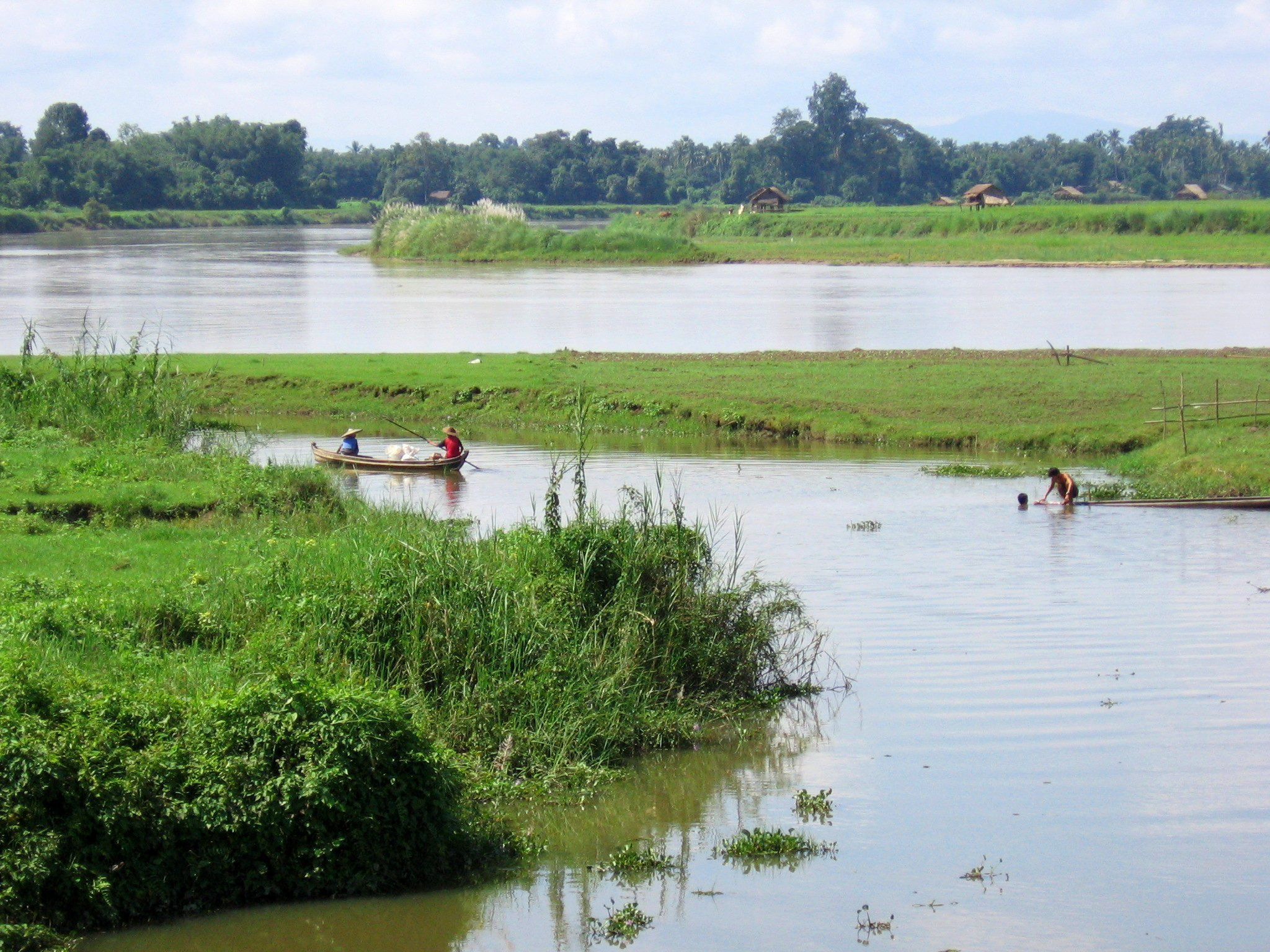 Taping River flowing by Shwe Kyina pagoda. Bhamo (Myanmar).